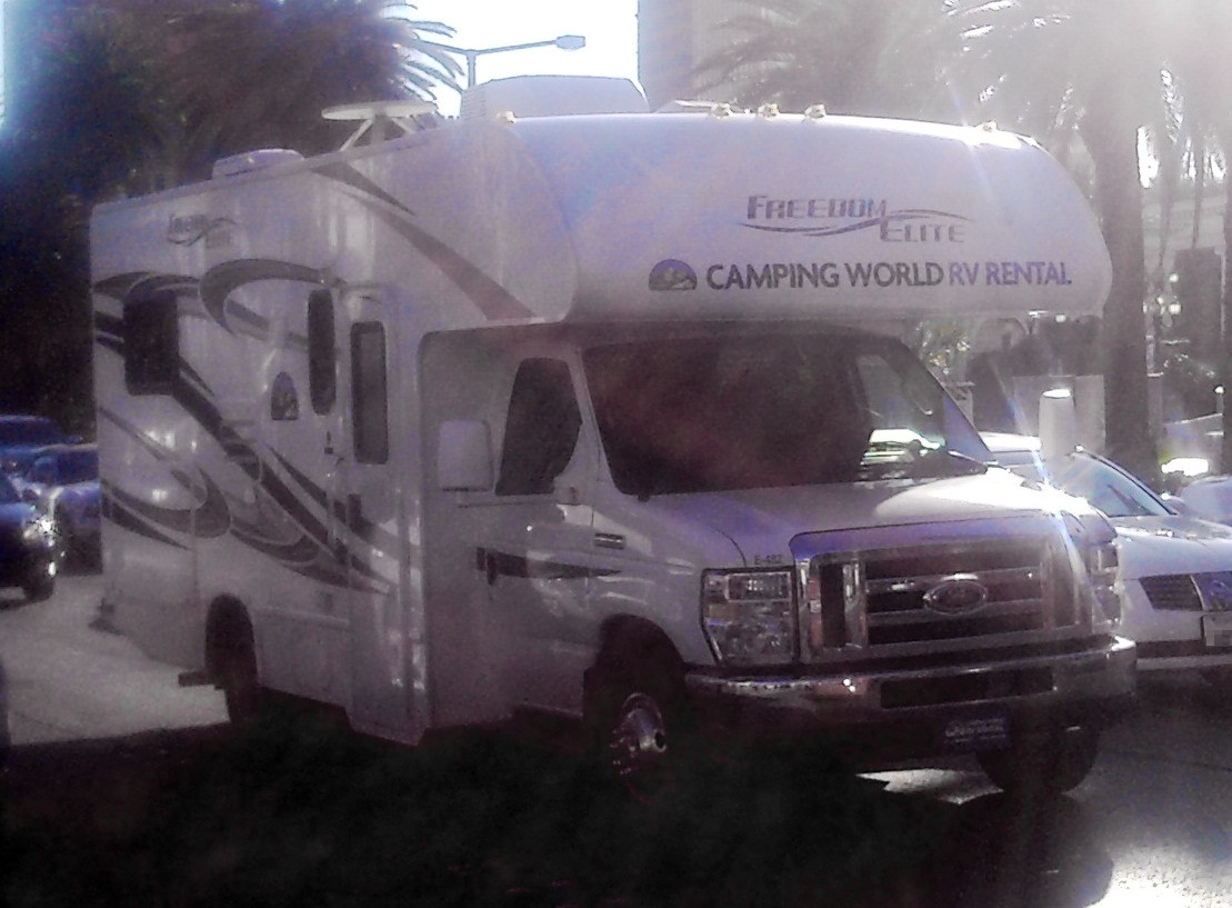 Ford E-Series RV photographed in Las Vegas, Nevada, USA.